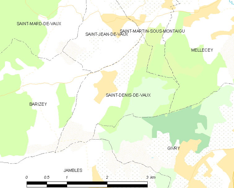 Map of French municipality